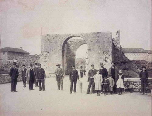 Porta Pracchiuso 4